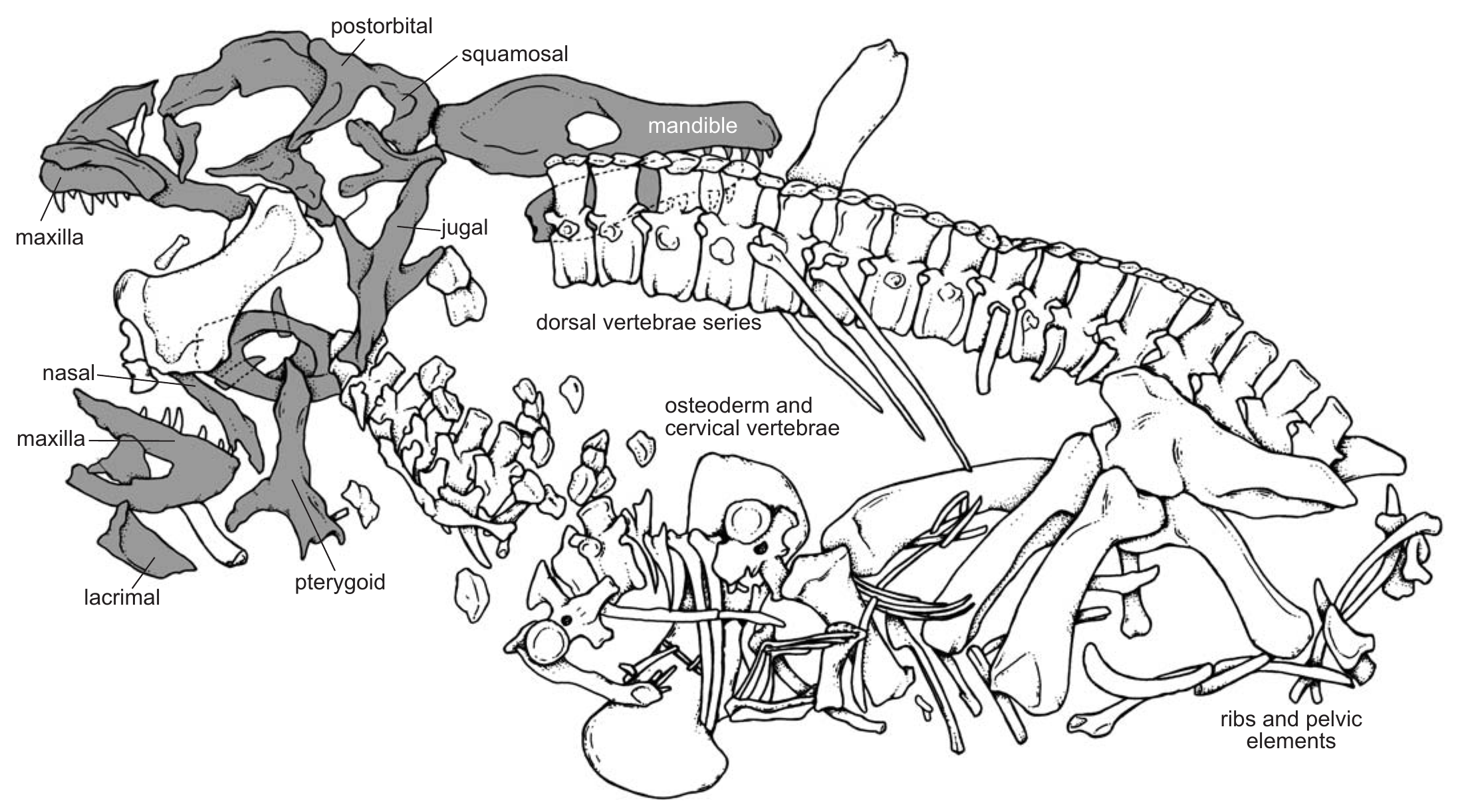 Schematic drawing of the pseudosuchian archosaur Prestosuchus chiniquensis Huene, 1938 (UFRGS-PV-0629-T) from the Dinodontosaurus Assemblage Zone, Ladinian, Middle Triassic, Dona Francisca municipality, Rio Grande do Sul State, Brazil (drawing by Téo Veiga de Oliveira). Cranial elements in gray